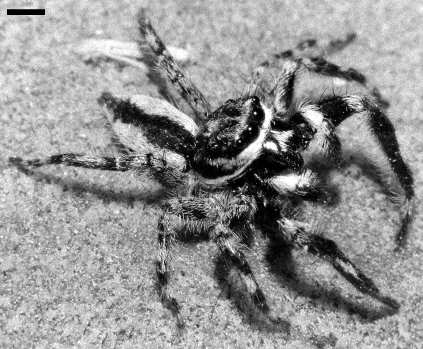 Male Menemerus bivittatus jumping spider from Gainesville, Alachua County, Florida USA